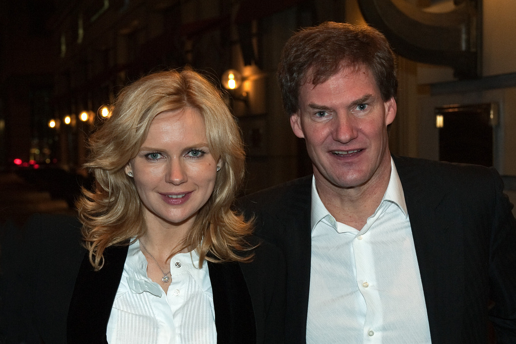 German actress Veronica Ferres and her partner Carsten Maschmeyer.